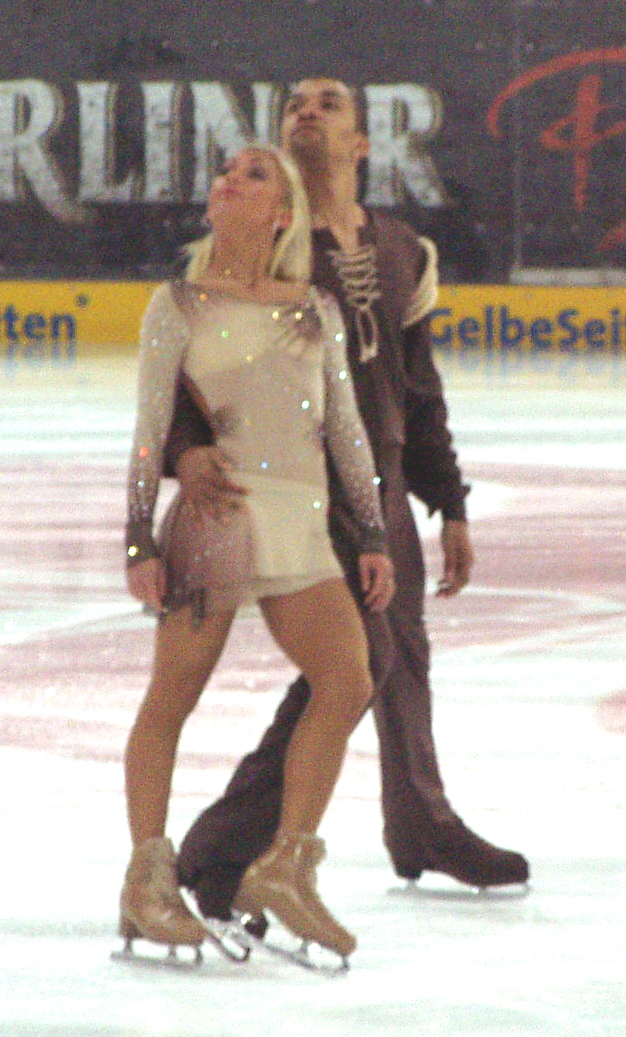 Aljona Savchenko and Robin Szolkowy at the free program at the German championships 2006 in Berlin